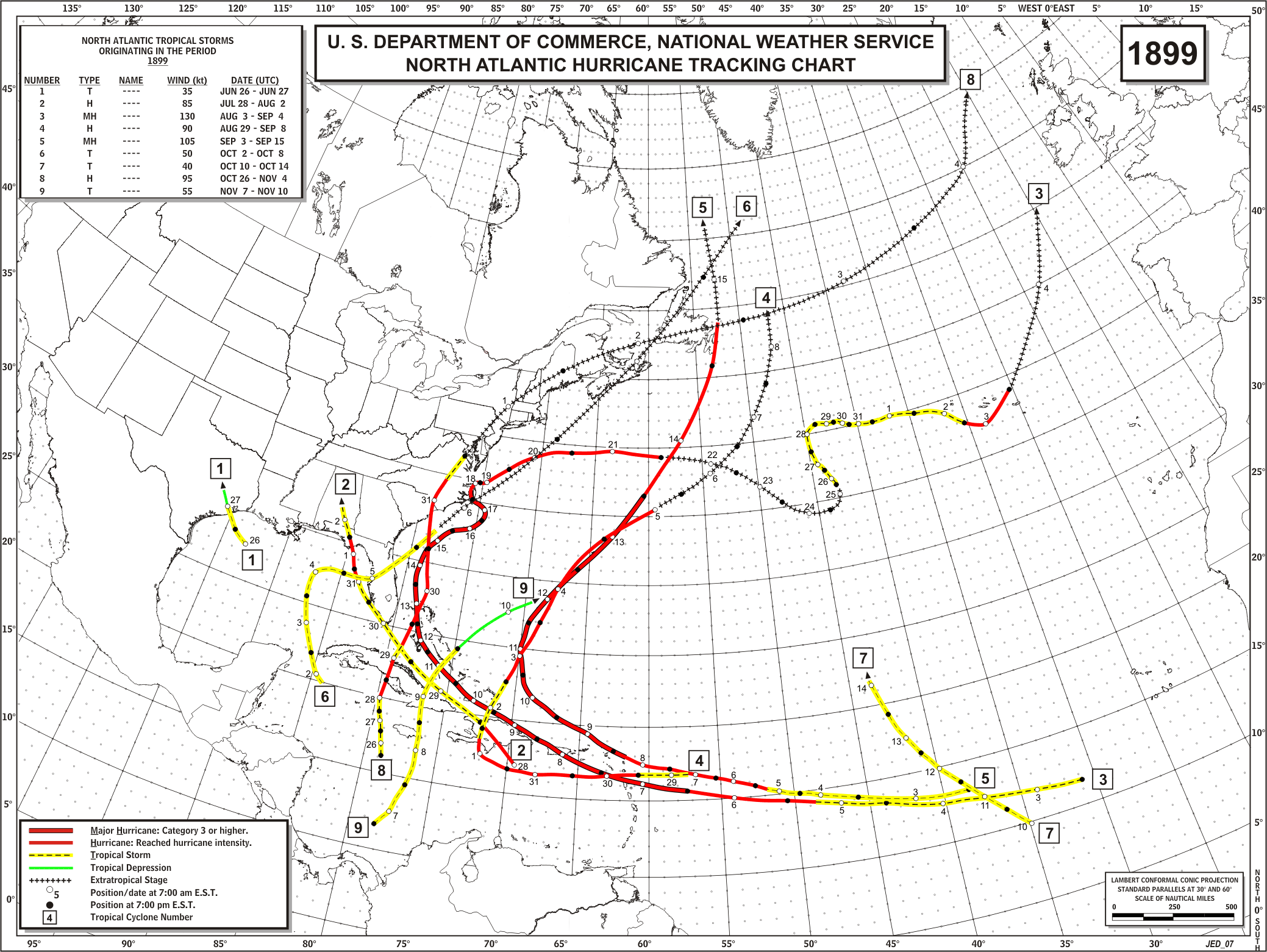 Season summary provided by NOAA of the 1899 Atlantic hurricane season.